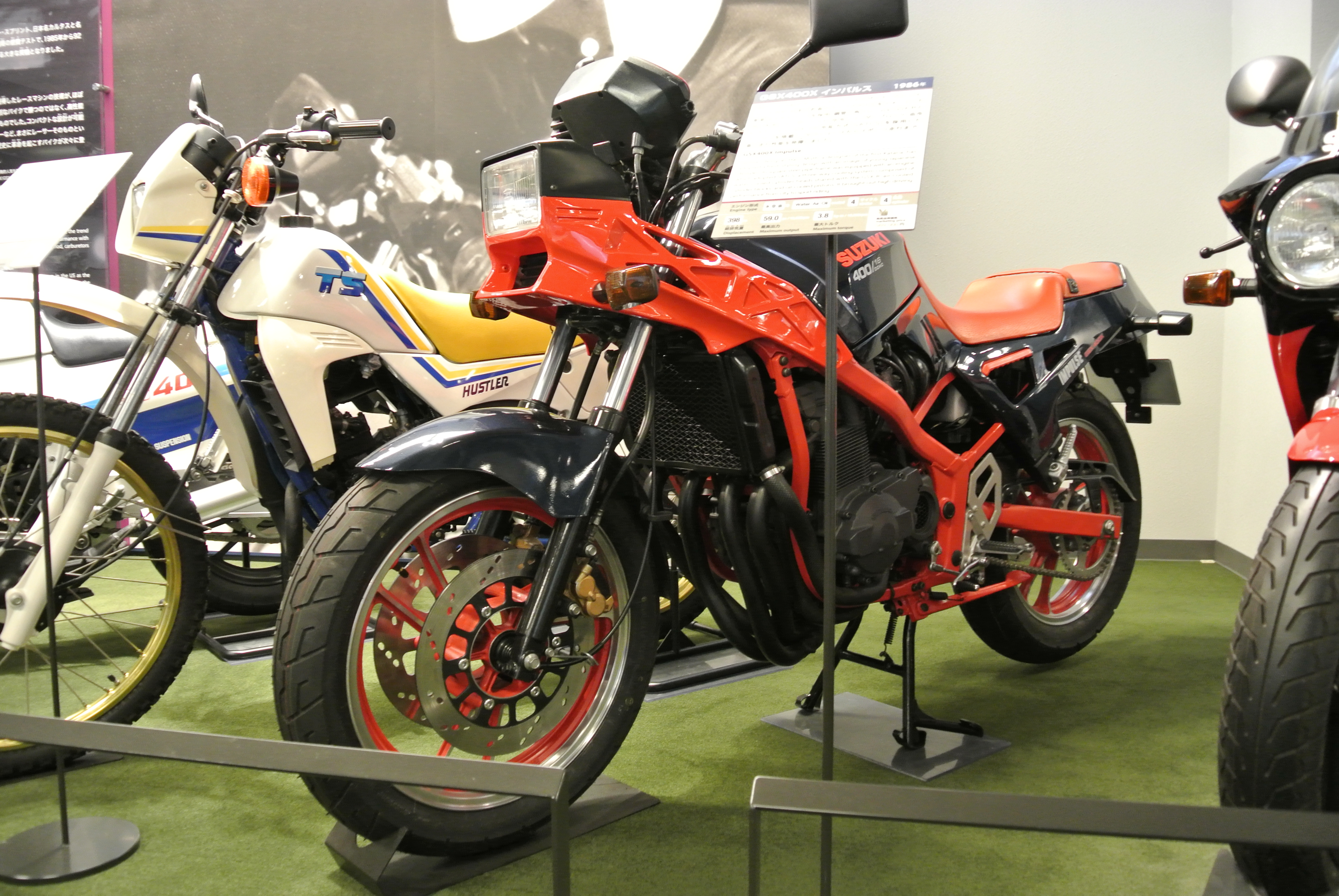 1986 Suzuki GSX400X Impulse in the Suzuki History Museum.